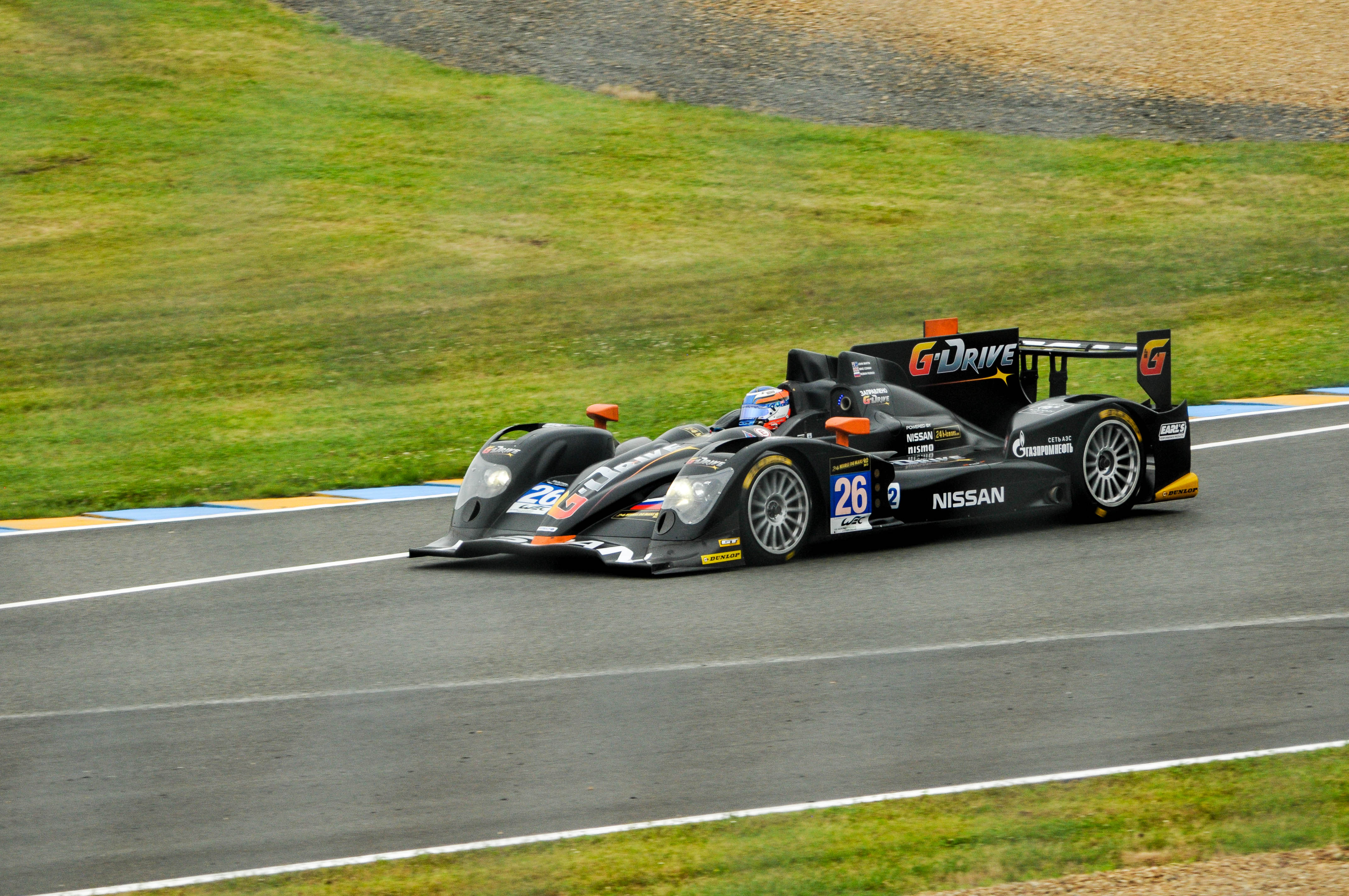 Le Mans 2013 (137 of 631)